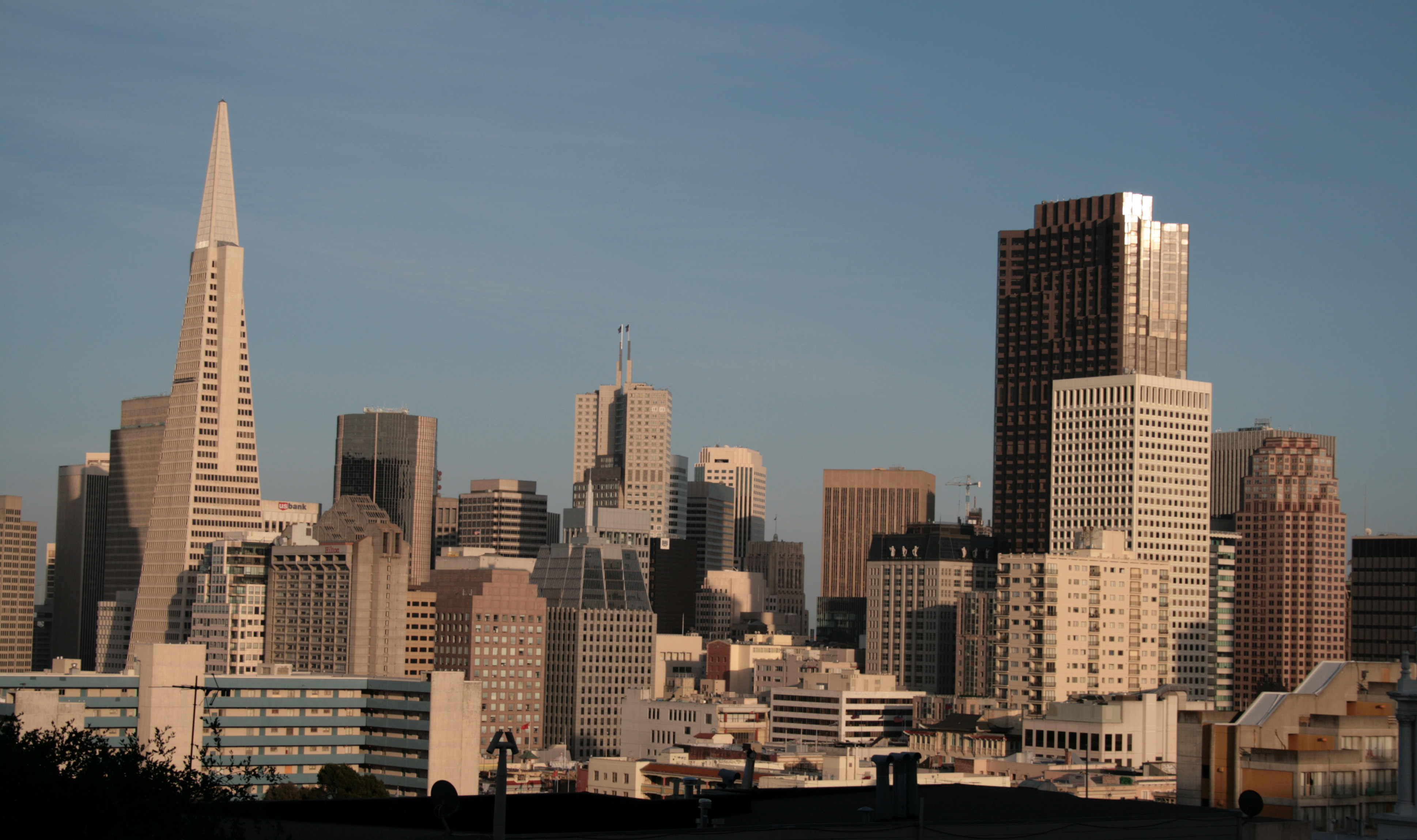 North Financial District, San Francisco, CA, USA Image taken April 27, 2007 by Dan Jahner (user:Danjahner) This image on Flickr